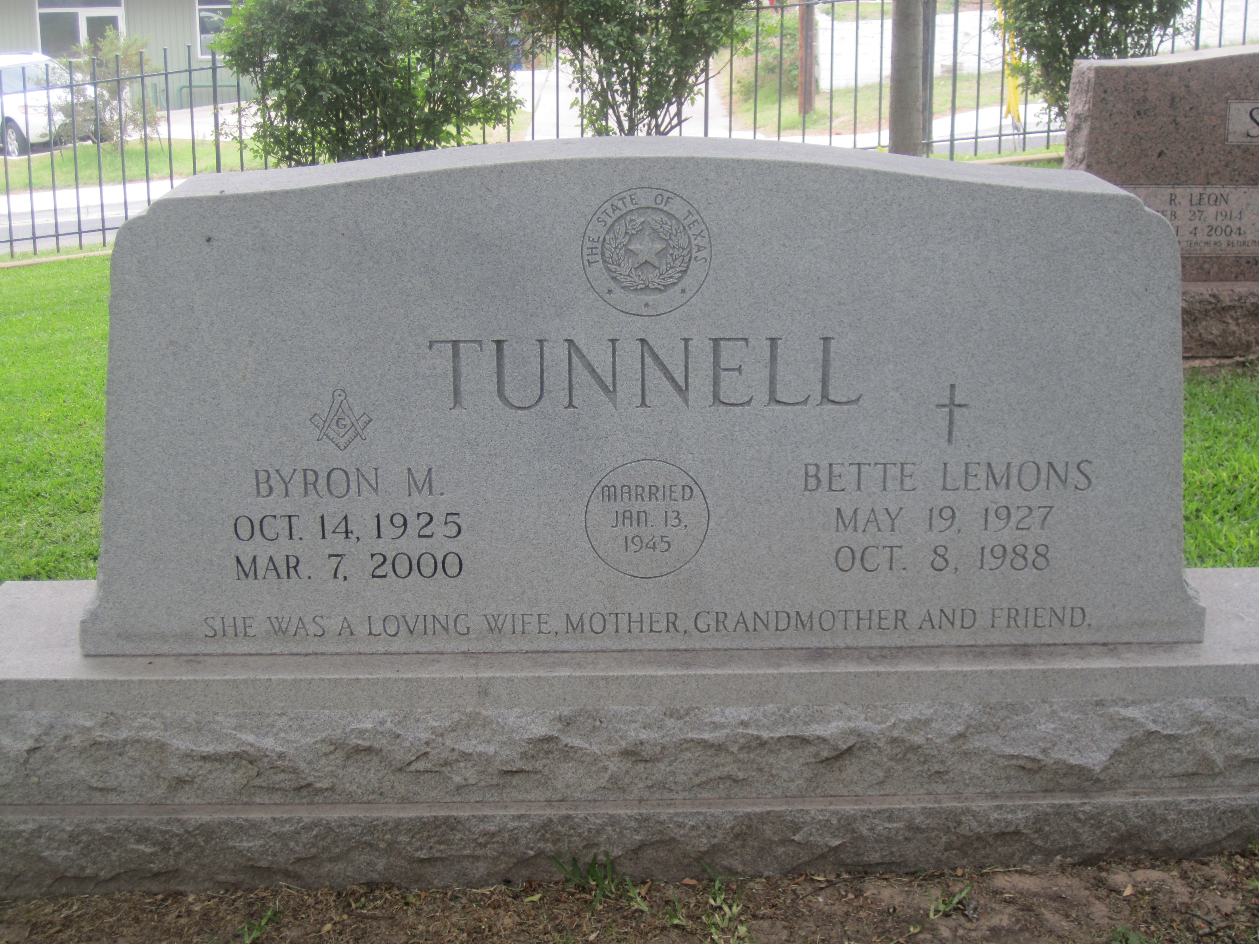 I took photo with Canon camera in Austin, TX, at TX State Cemetery: Byron M. Tunnell.